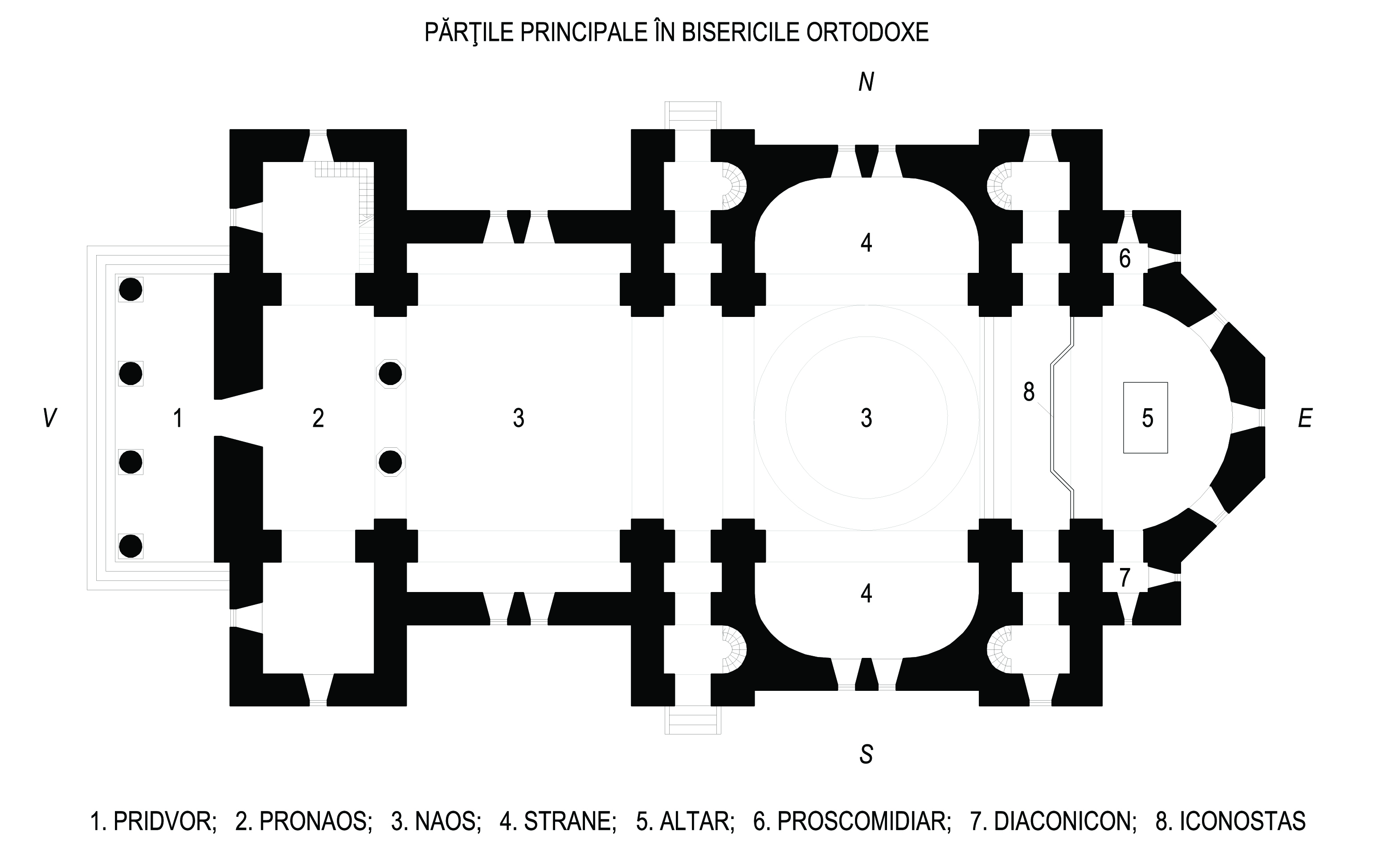 Părţile principale în biserica ortodoxă